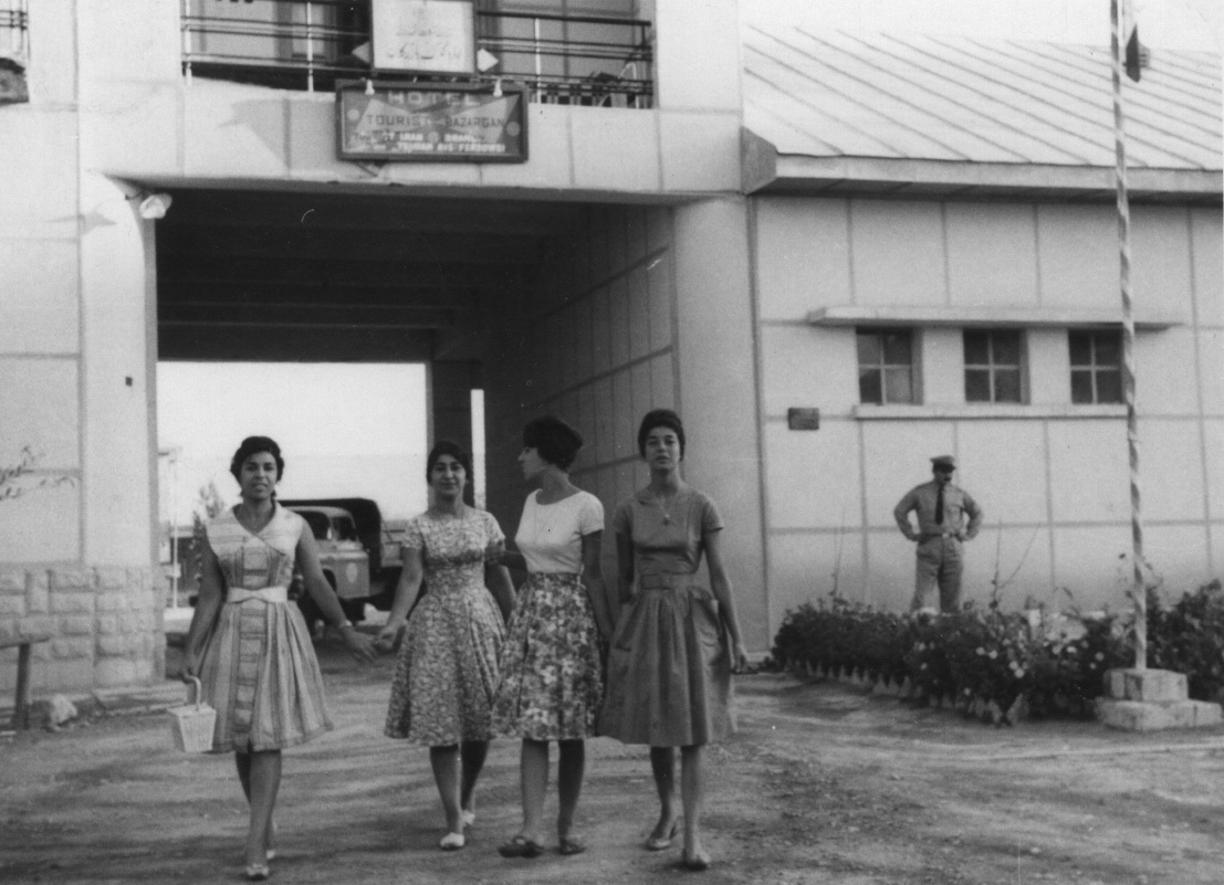 People of Iran